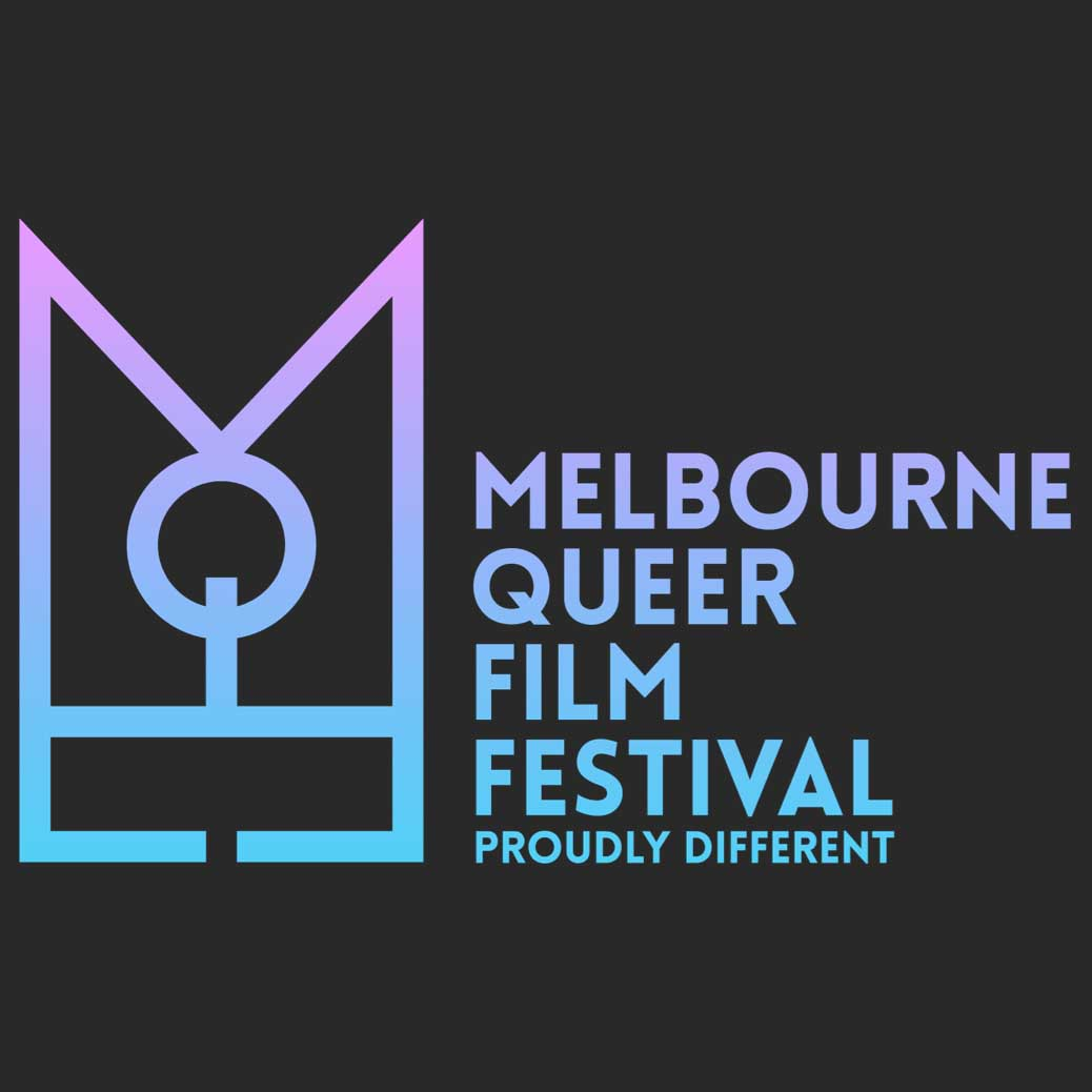 MQFF Logo